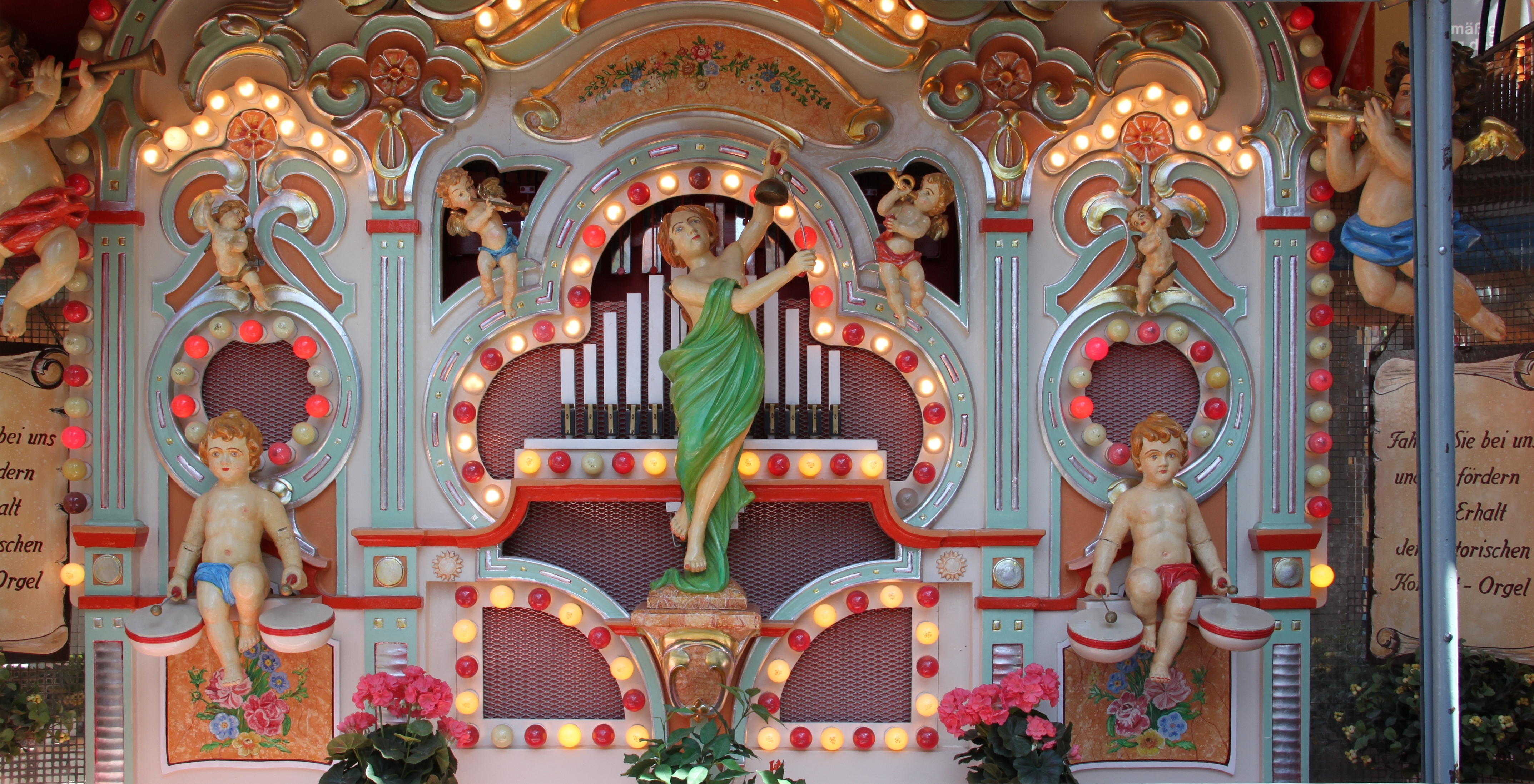 Fairground organ ("notes concert organ") of the Esterl-Koppenhöfer big wheel ("Russian wheel"), made by "Gebrüder Bruder" (1925) of Waldkirch (Black Forest, Germany)